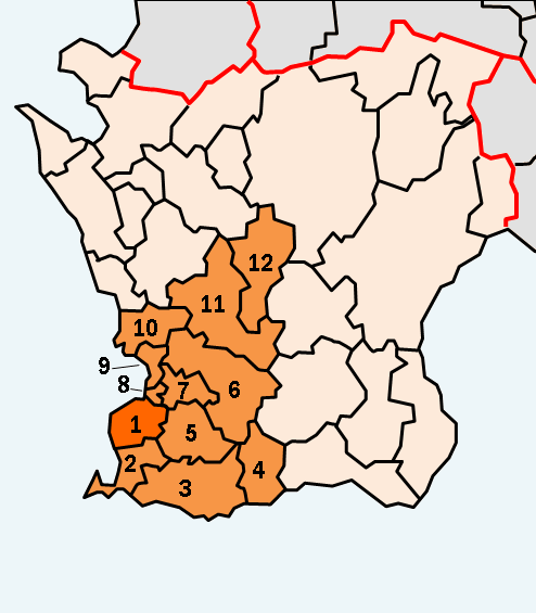 Map showing Metropolitan Malmö. Malmö is marked in dark-orange, and other municipalities belonging to the metropolitan area is mark in light-orange. Other municipalities which are in the same county is in pink. County border is in red.